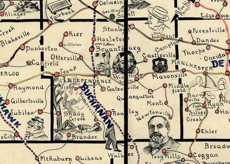 Detail of the Iowa Galbraith Rail Service Map of 1897, showing Buchanan County, Iowa.